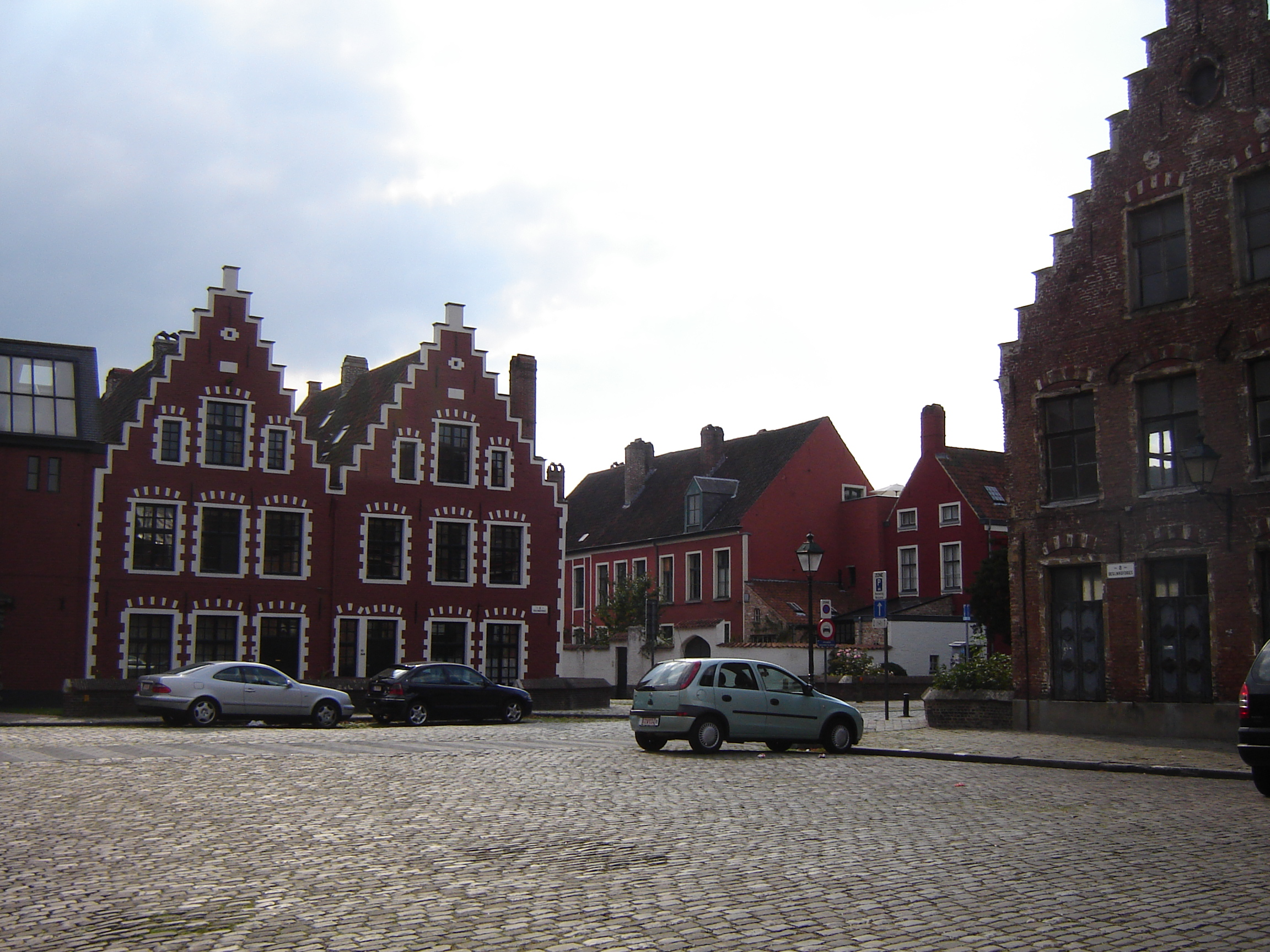 South west corner of the Begijnhofdries in the beguinage Sint-Elisabethbegijnhof. At the left the "Convent Ter Pielvaecx", at the very right a part of the "Convent Ter Velde". Gent, East Flanders, Belgium